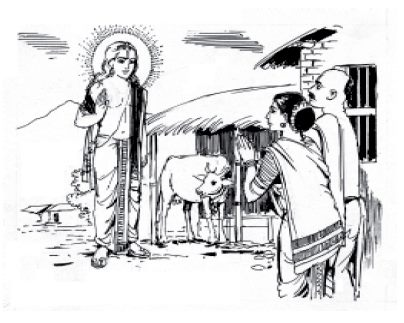 Ramdas vardan